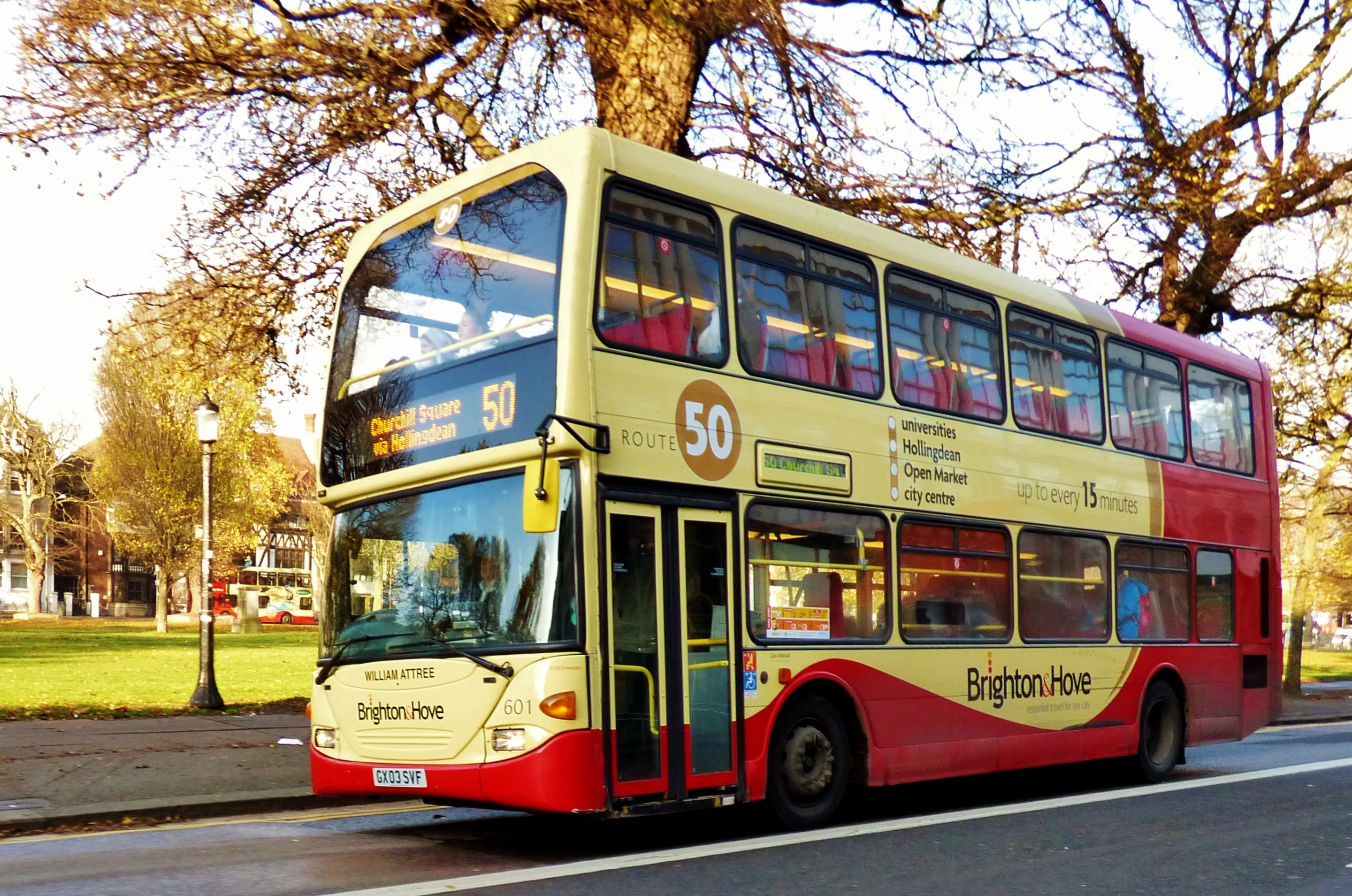 A 50 service in the Old Steine.